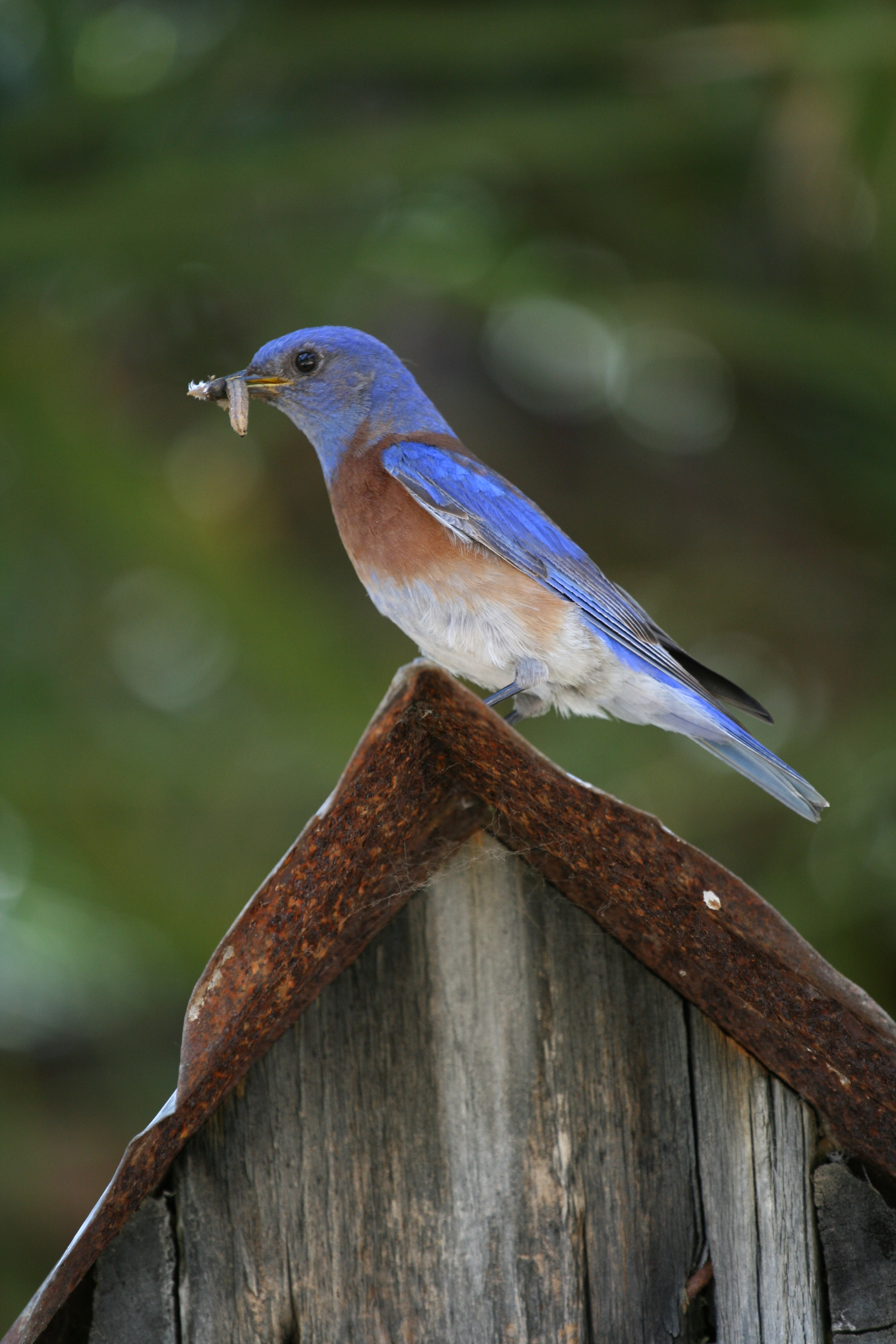 A Western Bluebird standing on a nestbox with a caterpillar in its beak.